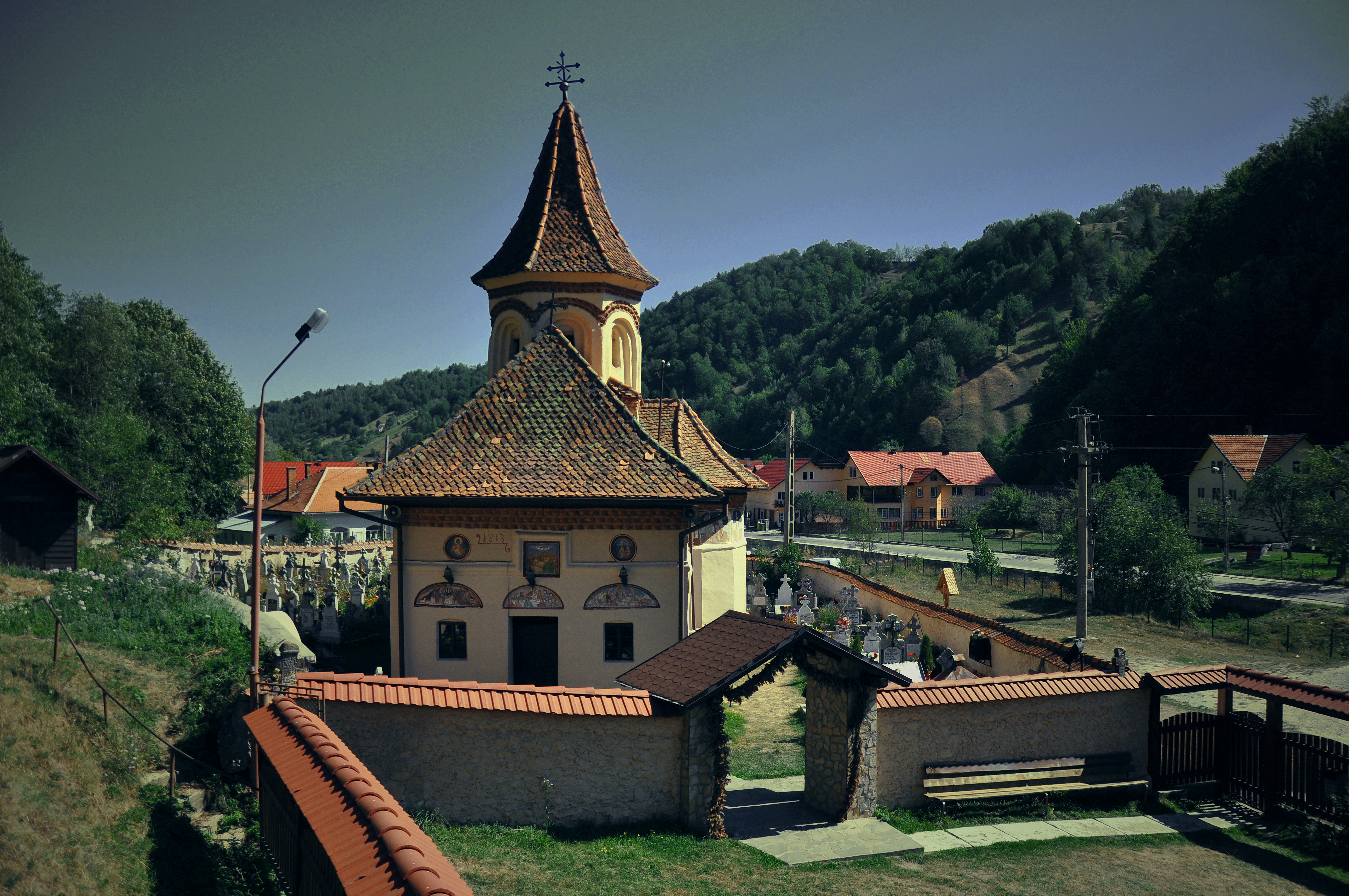 "Dormition of the Theotokos" Church from 1813 in Cheia village, Brasov district, Transylvania